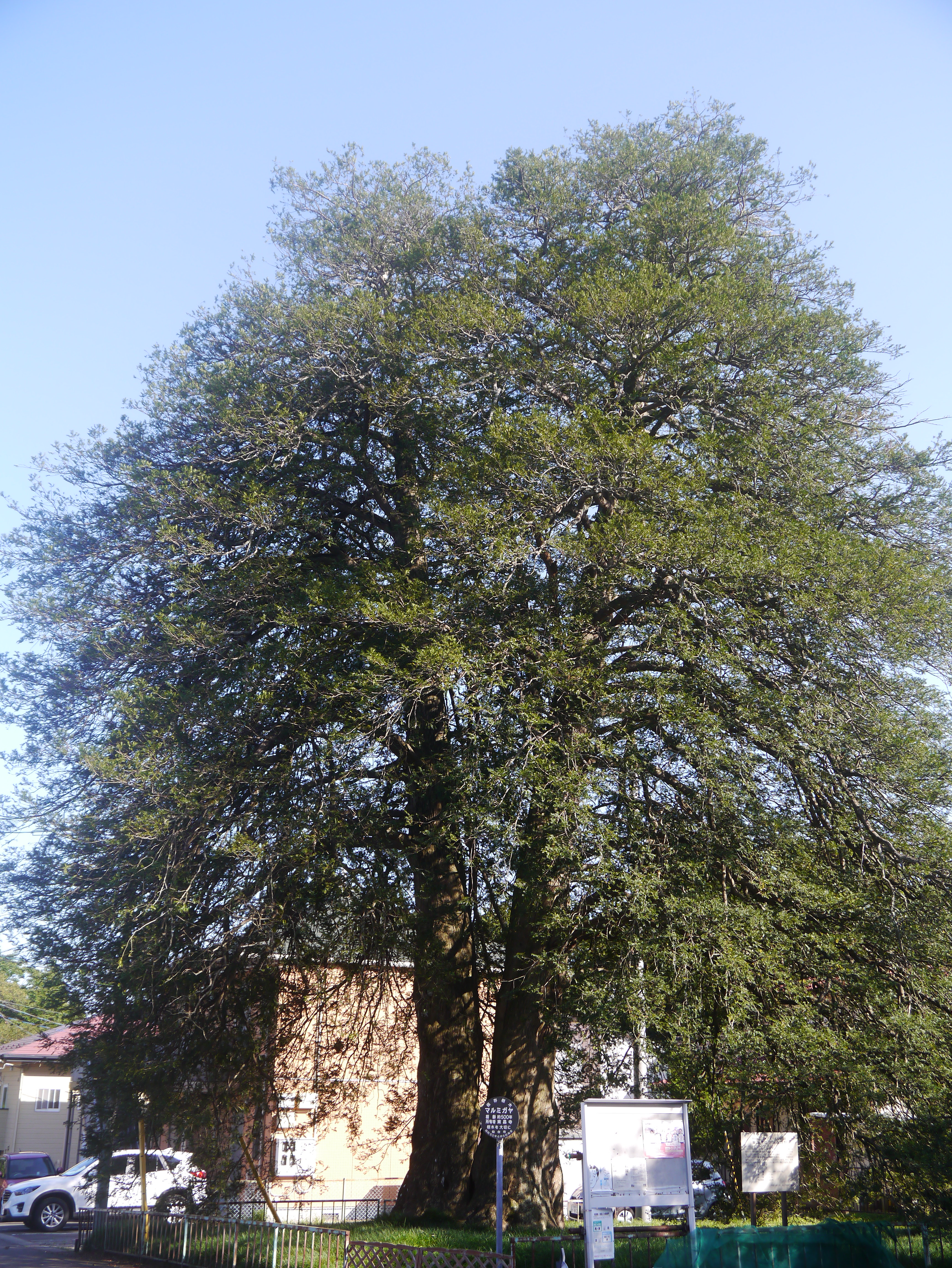 Marumi Kaya (Torreya nucifera Sieb.et Zucc.var.sphaerica Kimura)